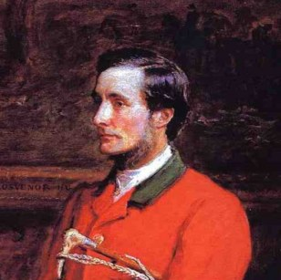 Hugh Grosvenor, 1st Duke of Westminster (1825-1899)